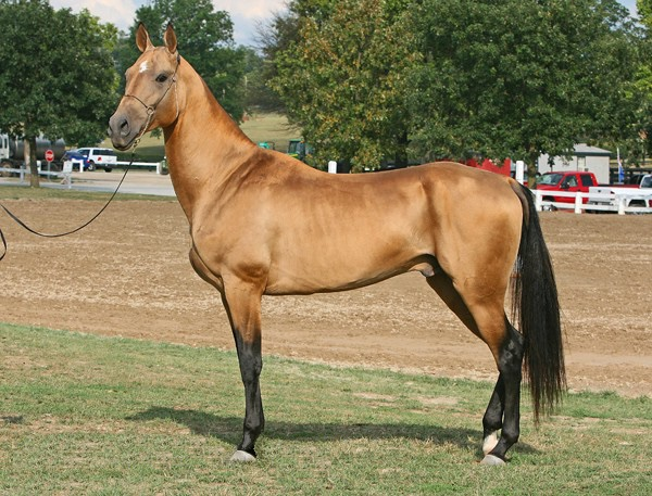 Photo by Heather Abounader